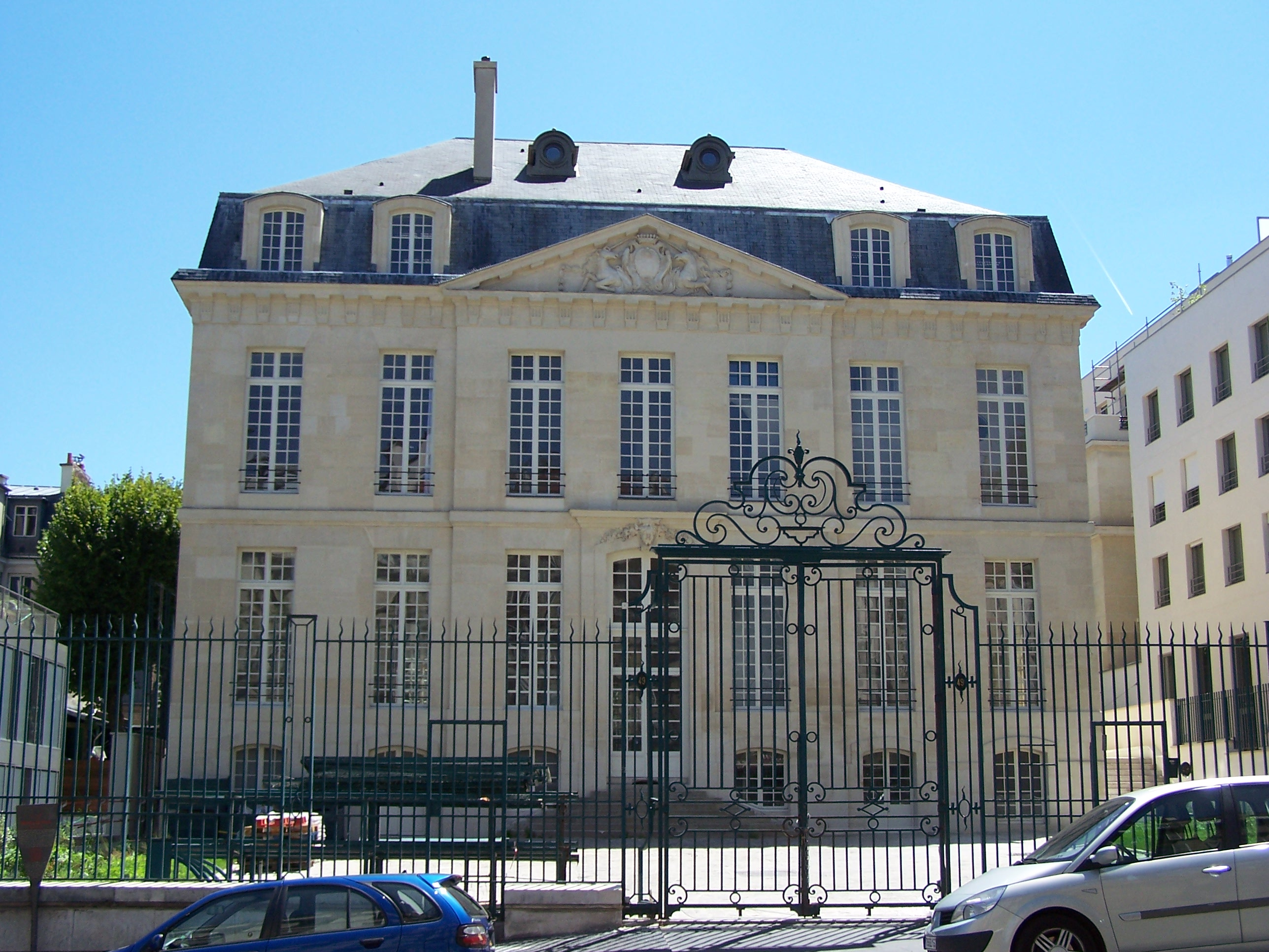 View of the Hôtel Le Brun at rue du Cardinal-Lemoine in Paris after its renovation in 2010/2011